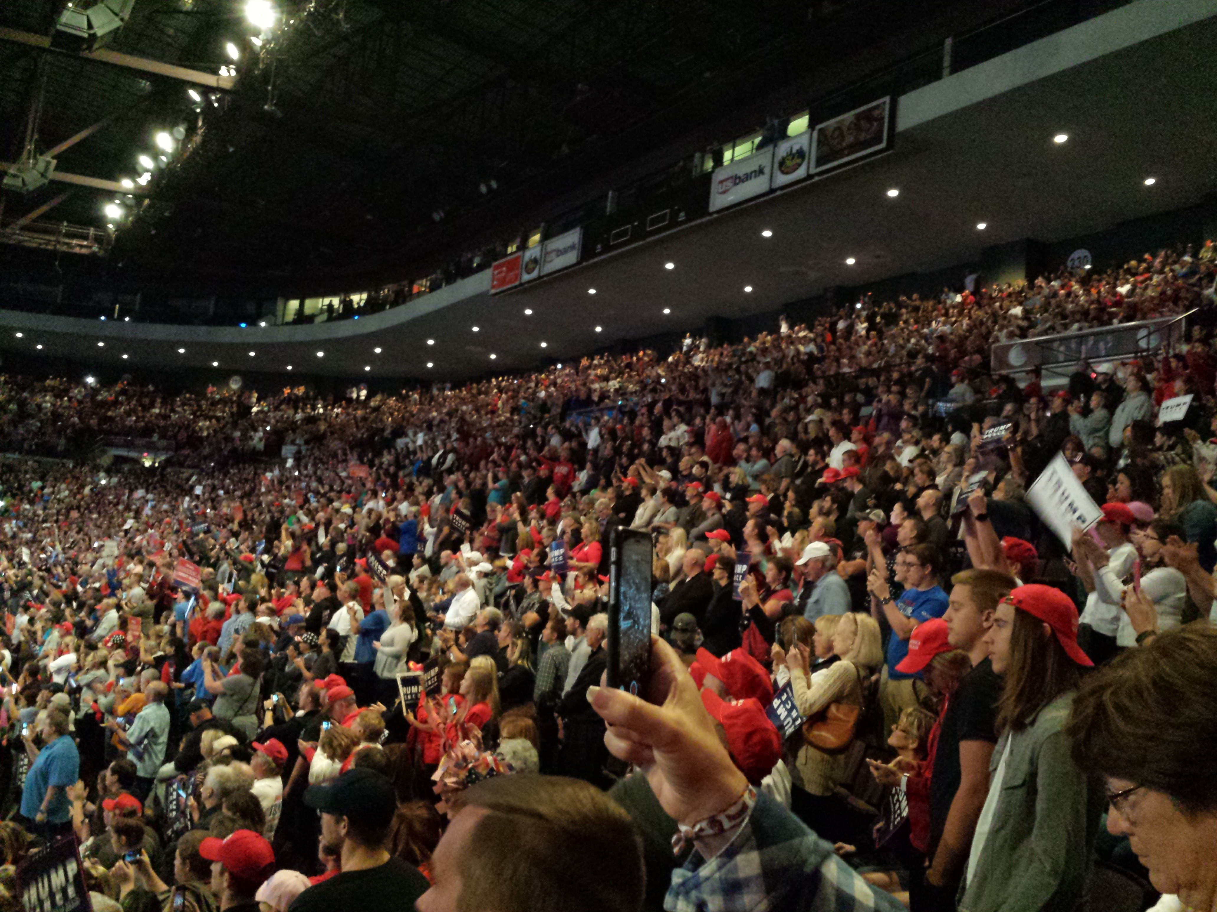 Trump Rally at US Bank Arena, Cincinnati on 10/13/2016. The lower half of the arena seating was full and the upper part of the arena seating was about half full. The arena holds 17,556 for a hockey game, and the floor was full of people.[1].